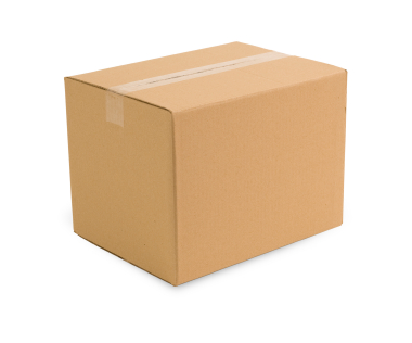 Three dimensional Box